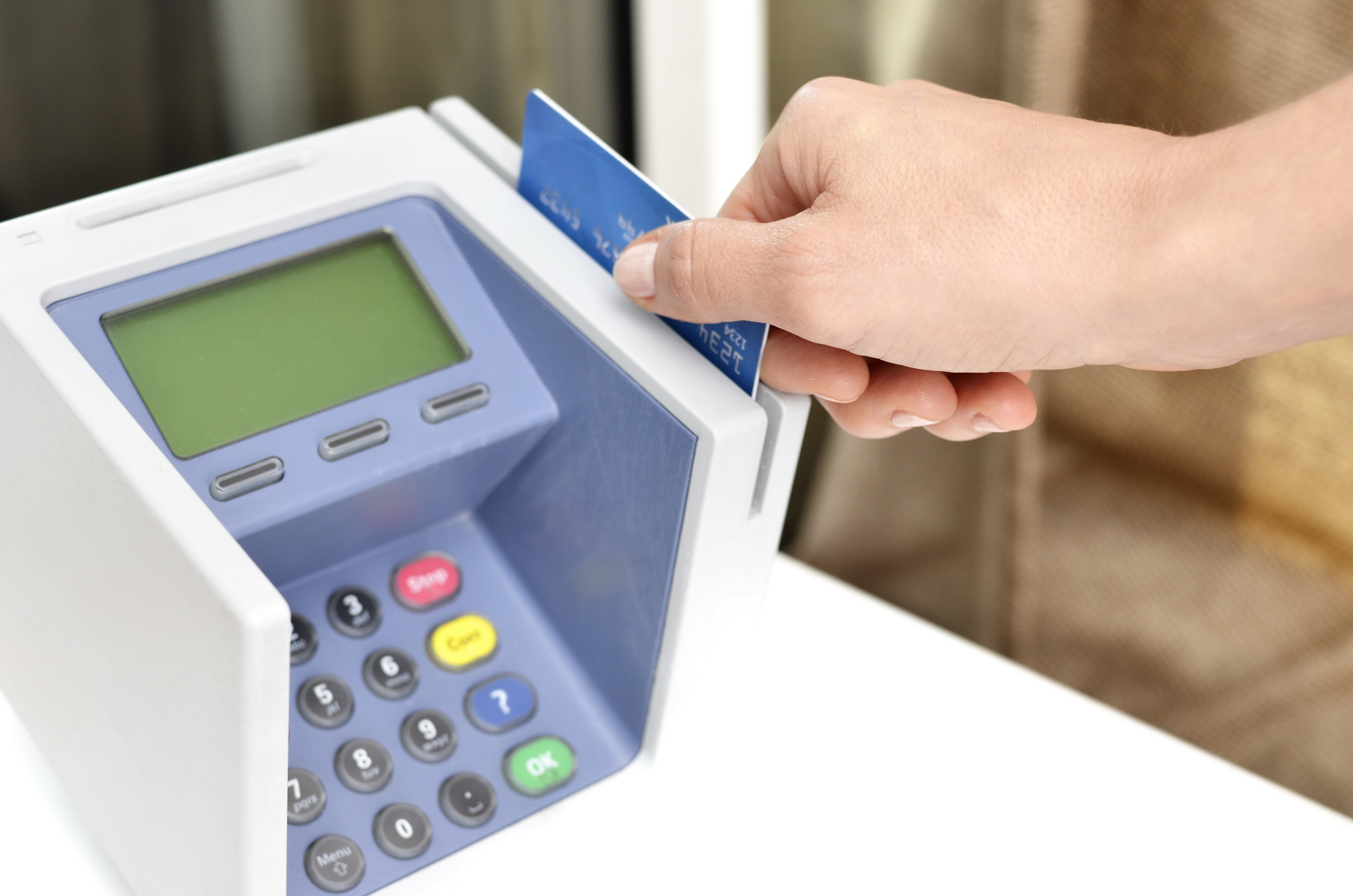 This photo shows a female hand sliding a debit or credit card through a blue point-of-sale machine. She could be making a retail purchase, or it could be a clerk or server processing payment at a store or restaurant. This picture would be good for illustrating purchases, business transactions, consumer buying habits, or purchasing convenience. Feel free to use them but please credit our website as the source, for example: Image: Hloom via Flickr / CC BY-SA, 401(K) 2013 Please add link to this image for "flickr", and link to our homepage for "hloom"